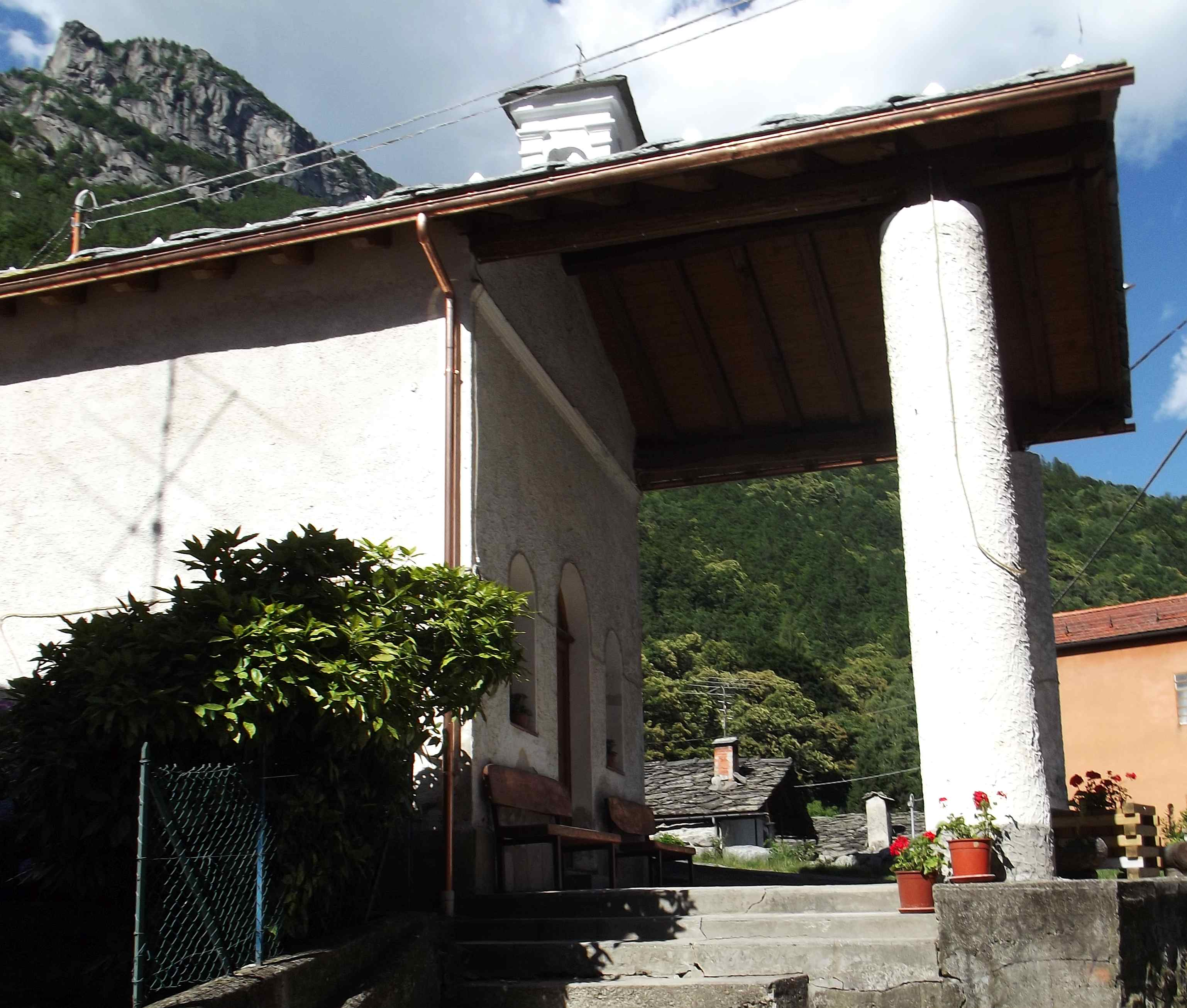 Mottera (Chialamberto, TO, Italy): the church